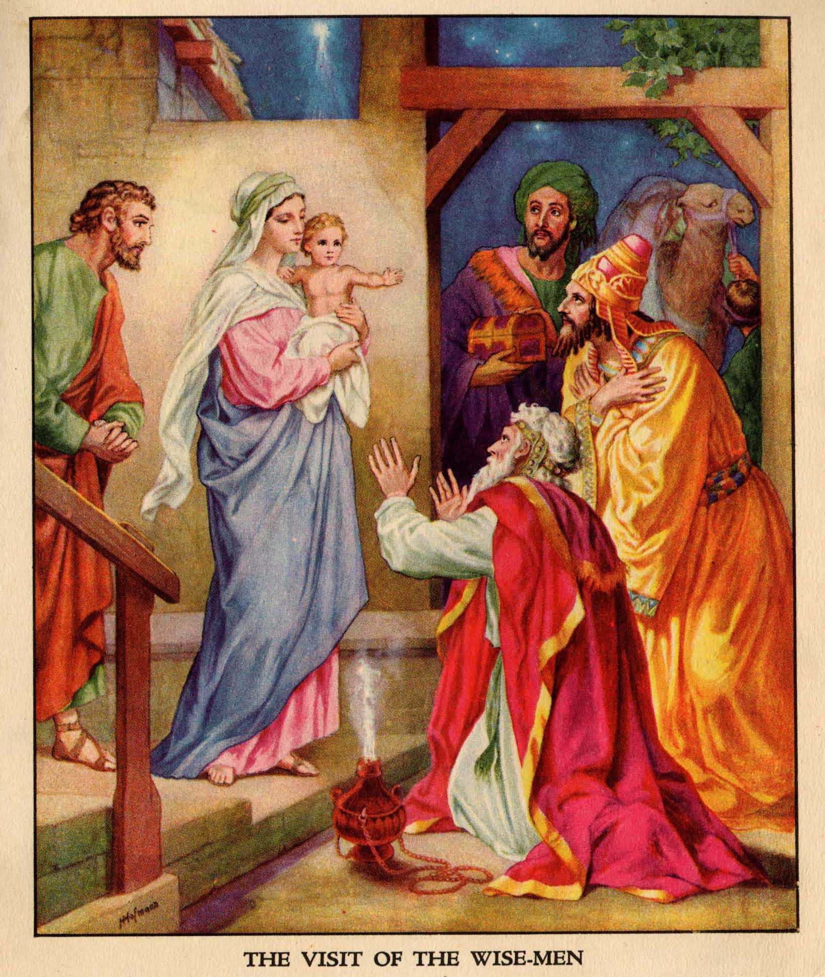 This is a chromolithograph by O. Stemler of a pencil drawing by H. Hofmann from Hofmann's 1887 series: Kommet zu mir! Bilder aus dem Leben des Heilandes; Festgabe für Christliche Familien (Come Unto Me), published by photogravure in 1891 (perhaps earlier in German).